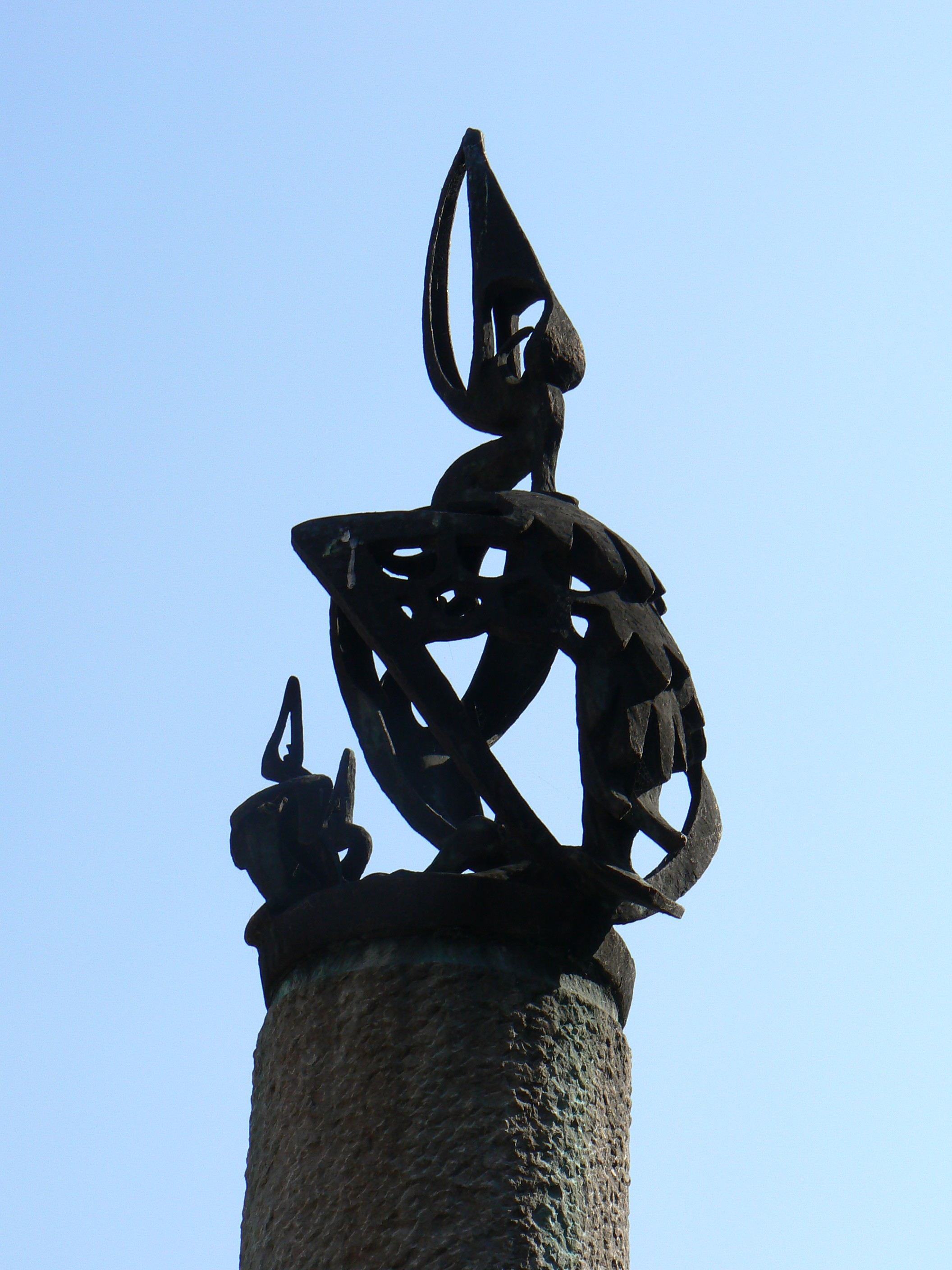 sculpture/memorial 1940-1945 (1954) by Willem Valk in Appingedam/The Netherlands